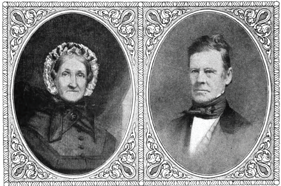 Portraits of Eleutheros Cooke (father) and Martha Carswell Cooke (mother) parents of Jay Cooke